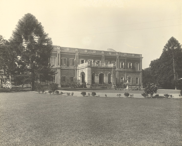 Photograph taken by Fritz Kapp in 1904 of a large garden house built by the Nawabs in the Dilkusha Gardens in Dacca (now Dhaka), part of an album of 30 prints from the Curzon Collection. Garden Houses were large buildings designed in the European style and set in extensive grounds. Dilkusha Gardens were adjacent to the watery Motijheel area, near swamps and marshes. The commercial heart of present-day Dhaka has since engulfed the area.